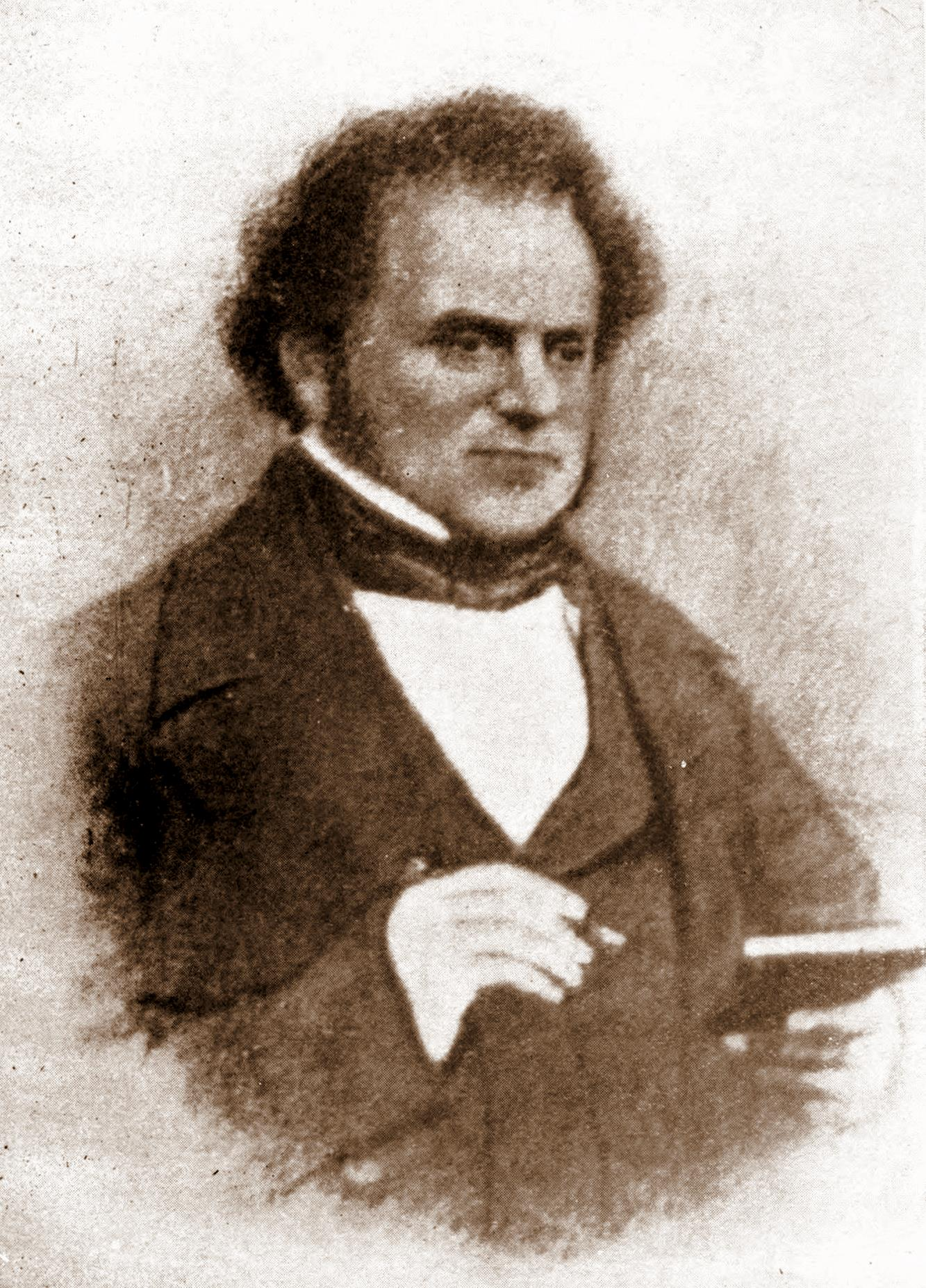 George Baxter (1804-1867), from a photograph supplied by Mr. Frederick Harrild, taken from the original in the possession of the family.